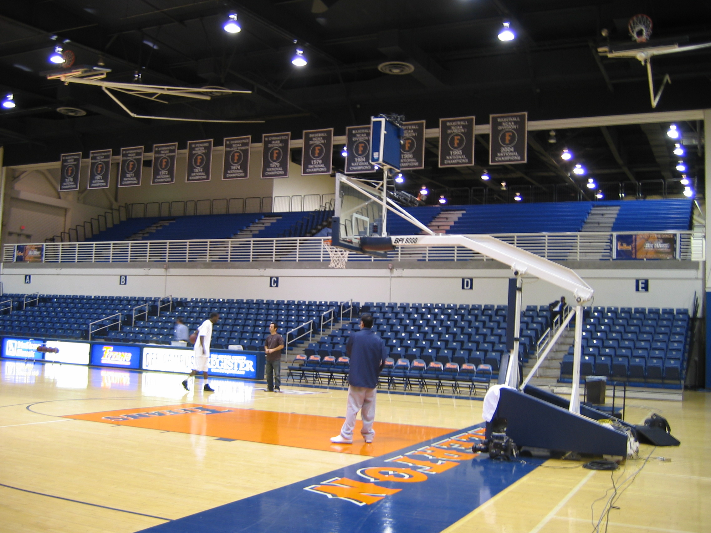 Football & Basketball Facilities Cal State Fullerton Gym